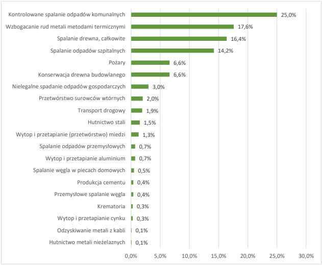 Source: EUROPEAN DIOXIN PROJECT, 1997. Identification of Relevant Industrial Sources of Dioxins and Furans in Europe, Final Report of the European Commission. DG-XI, No: 43.